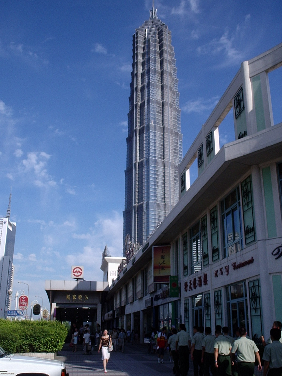 A group of Chinese cadets return to Luijiazui metro station in 2003 after a visit to the Jin Mao tower, at the time the tallest tower in the People's Republic of China and fifth tallest in the world. The buildings adjacent to the station entrance have now been demolished to make way for the Shanghai IFC complex.